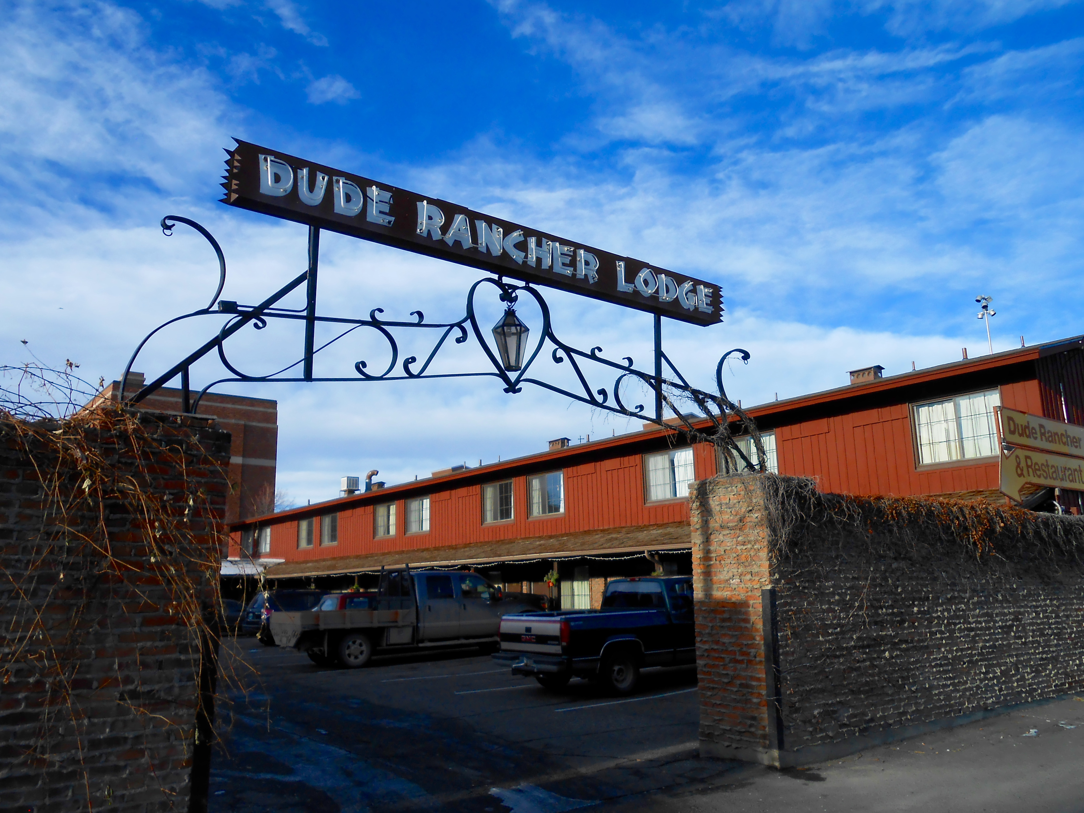 Back "courtyard" entrance to the Dude Rancher Lodge in Billings, Montana. Motel is on the National Register of Historic Places